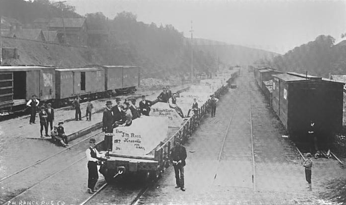 Train carrying blocks of Tennessee marble quarried at the John M. Ross Marble Quarry (now known as Mead's Quarry) in Knox County, Tennessee, United States